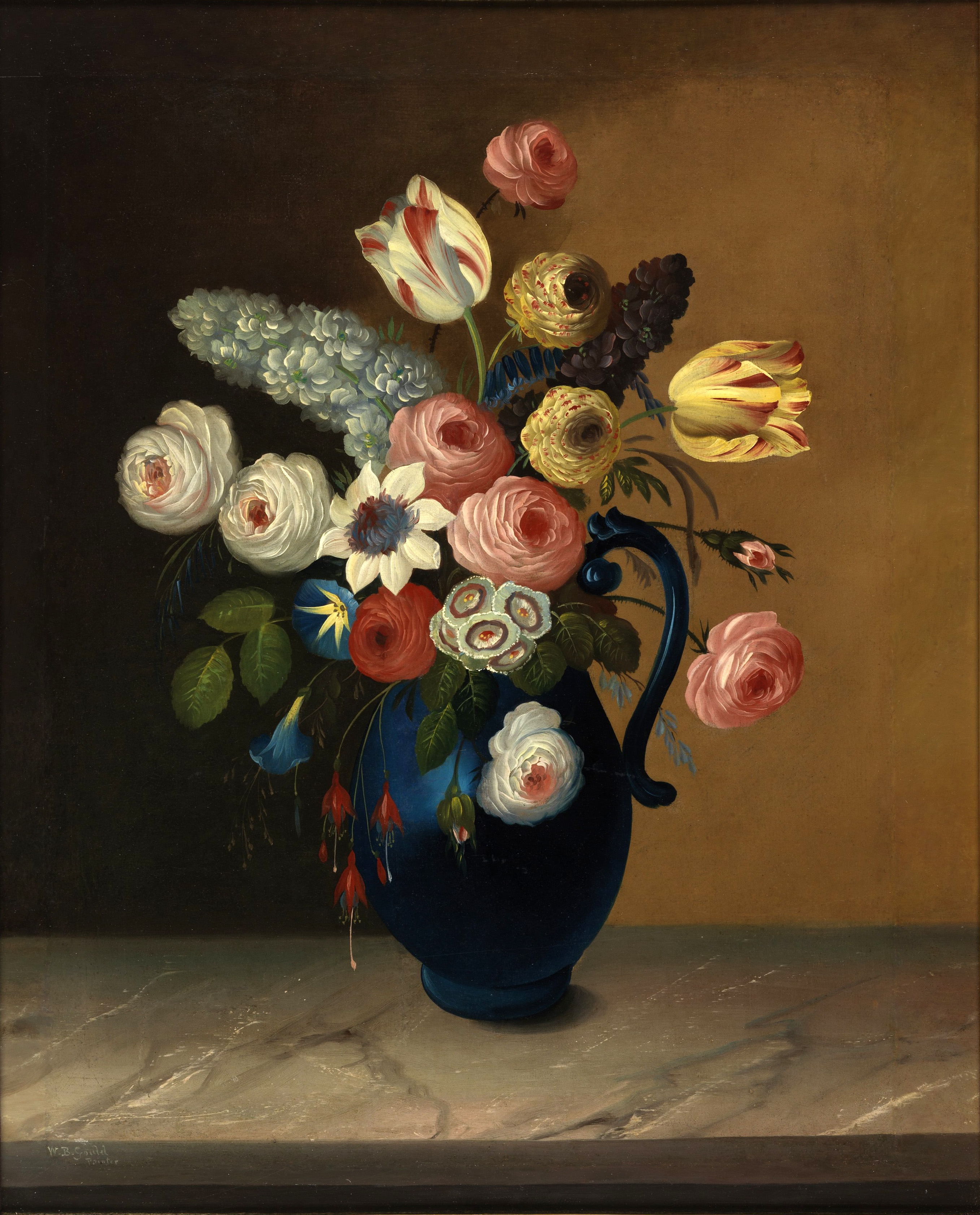 Still life, flowers in a blue jug oil on canvas painting by Van Diemonian (Tasmanian) artist and convict William Buelow Gould (1801 - 1853). Painted c1840 after Gould had received his Certificate of freedom. It is signed in the lower left corner "W.B.Gould, Painter". Actual size (framed) 690 x 560 mm.